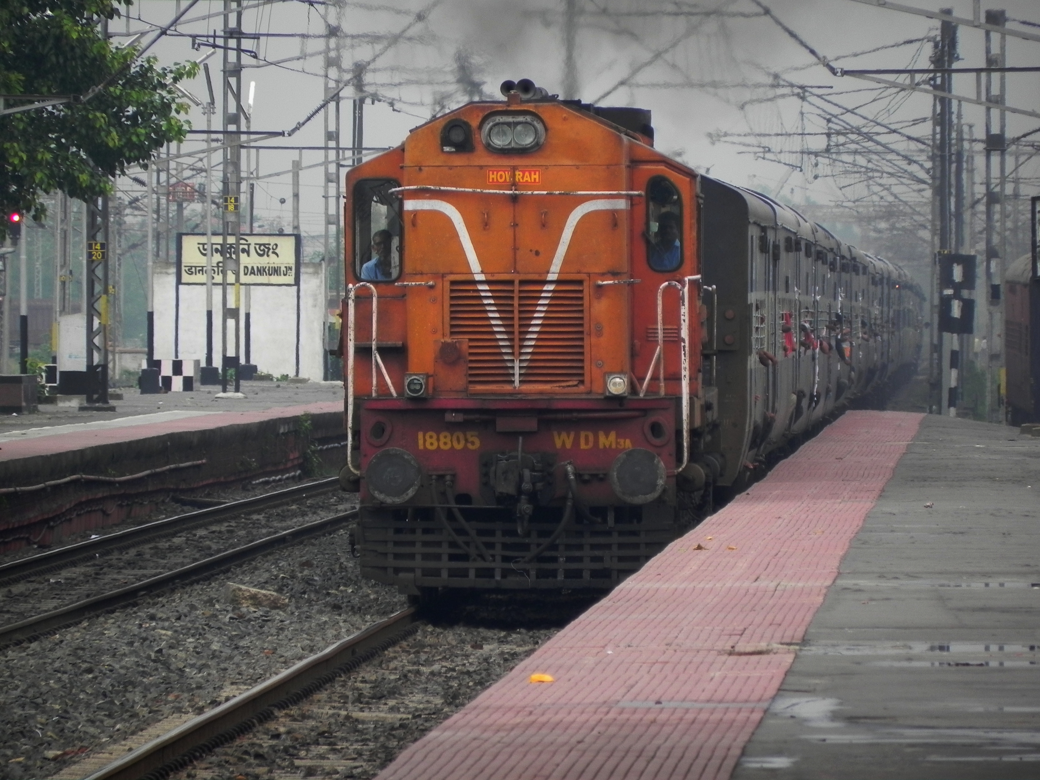 Guwahati bound 12515 (TVC-GHY) Weekly Express with WDM-3A loco at Dankuni, West Bengal